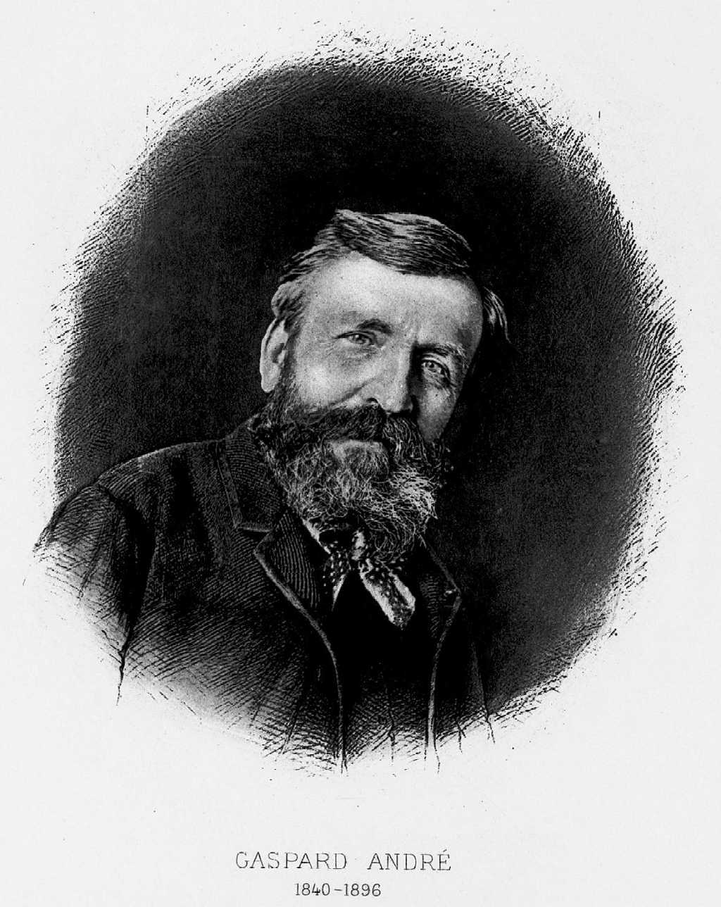 Engraving of the French Architect Gaspard André (1840-1896) in L'œuvre de Gaspard André, published in 1898